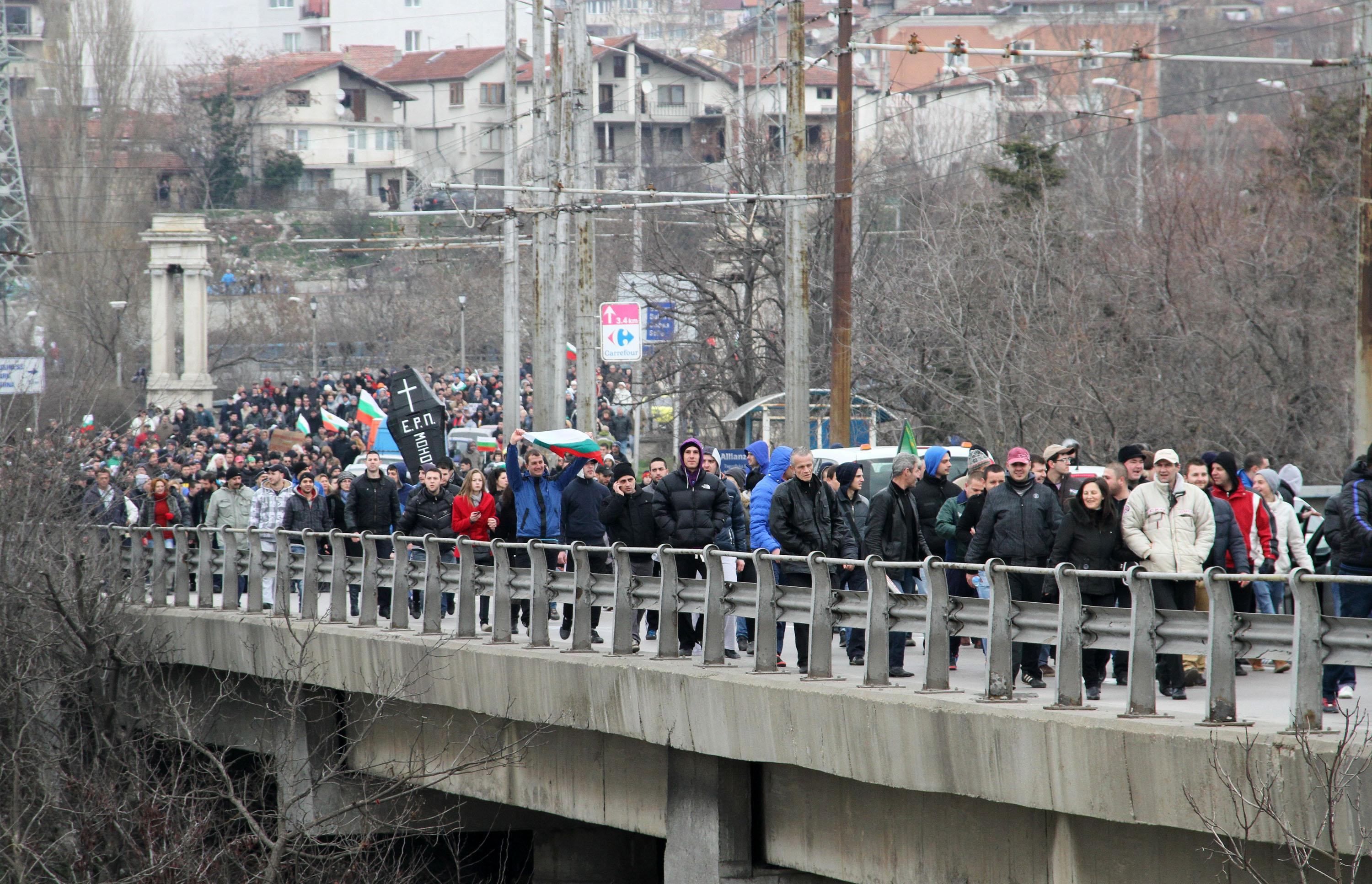 Protest in the city of Varna, 17 Feb 2013